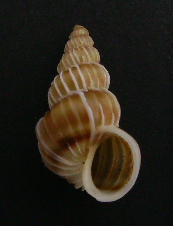 Epitonium tenellum from Browns Bay, Auckland, New Zealand. This work has been released into the public domain by its author, Graham Bould. This applies worldwide.In some countries this may not be legally possible; if so:Graham Bould grants anyone the right to use this work for any purpose, without any conditions, unless such conditions are required by law. .